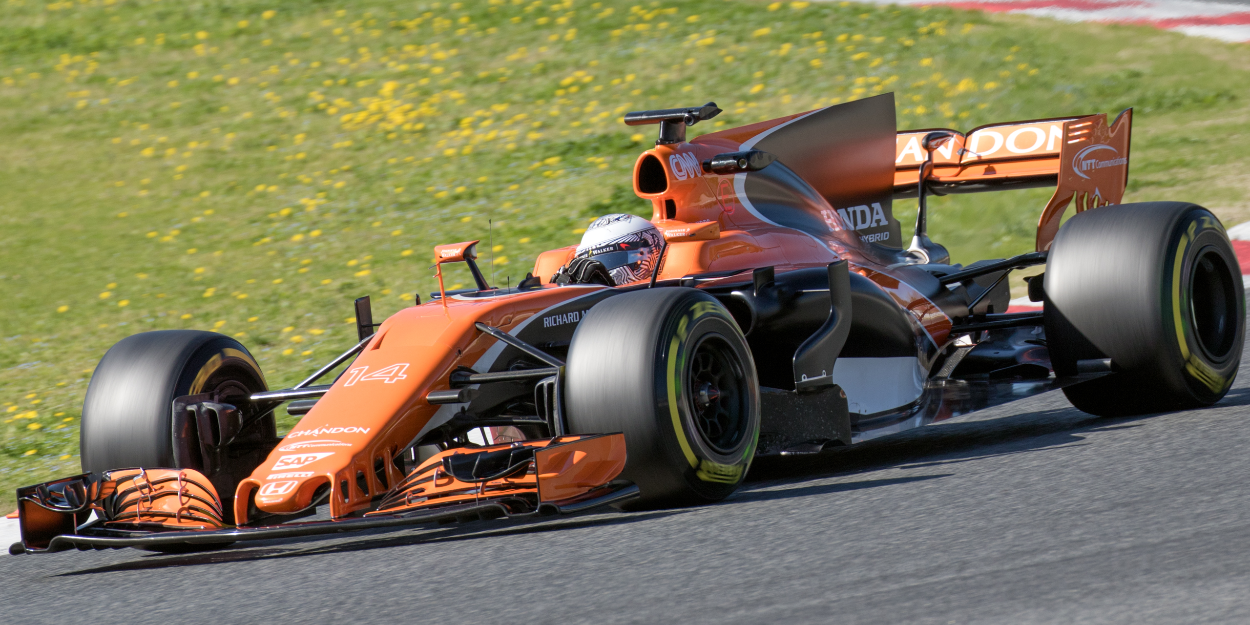 Formula One 2017 Catalonia test (27 February-2 March): Fernando Alonso (McLaren)